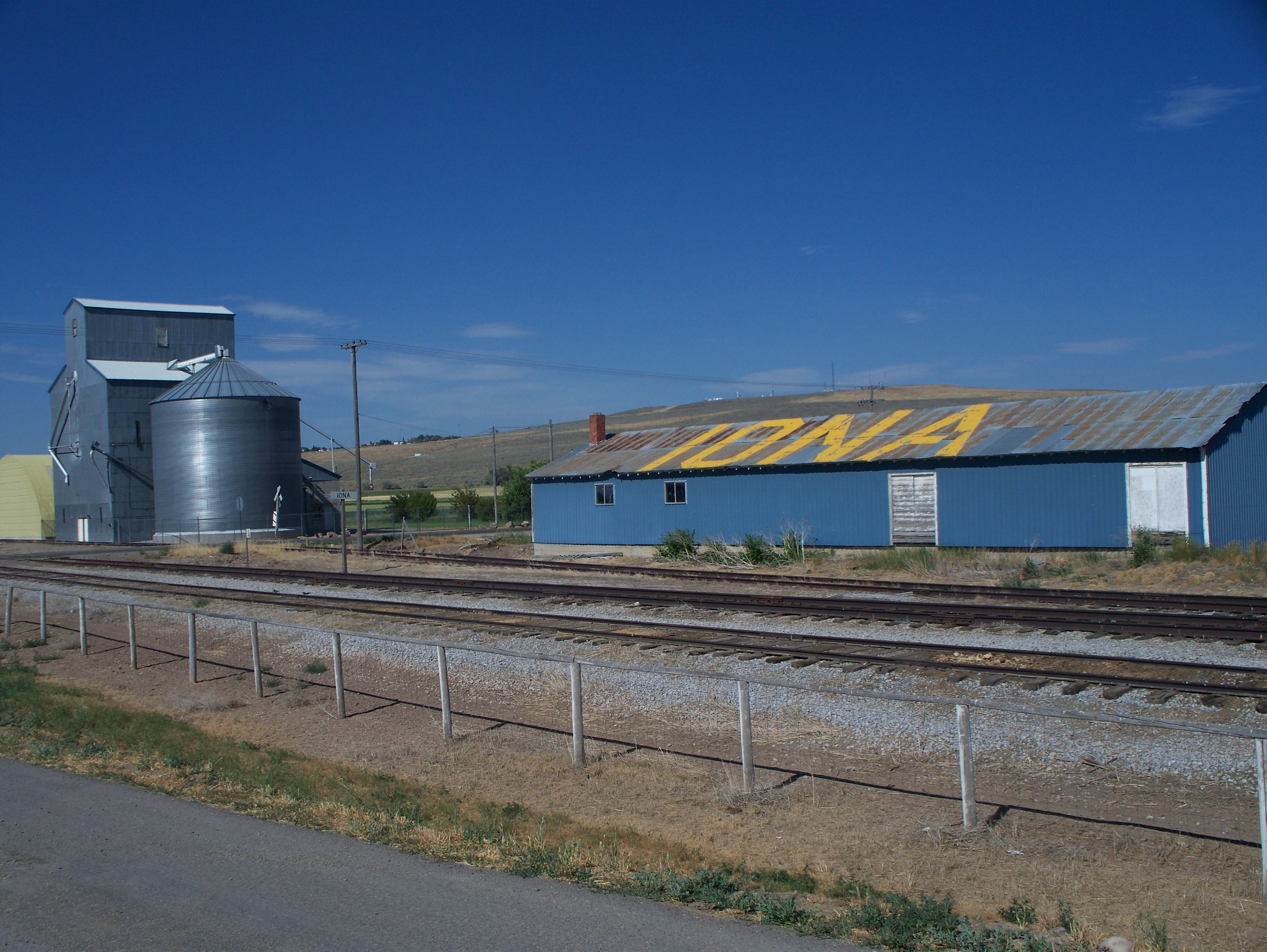 Grain elevator along a train stop in Iona, Idaho.